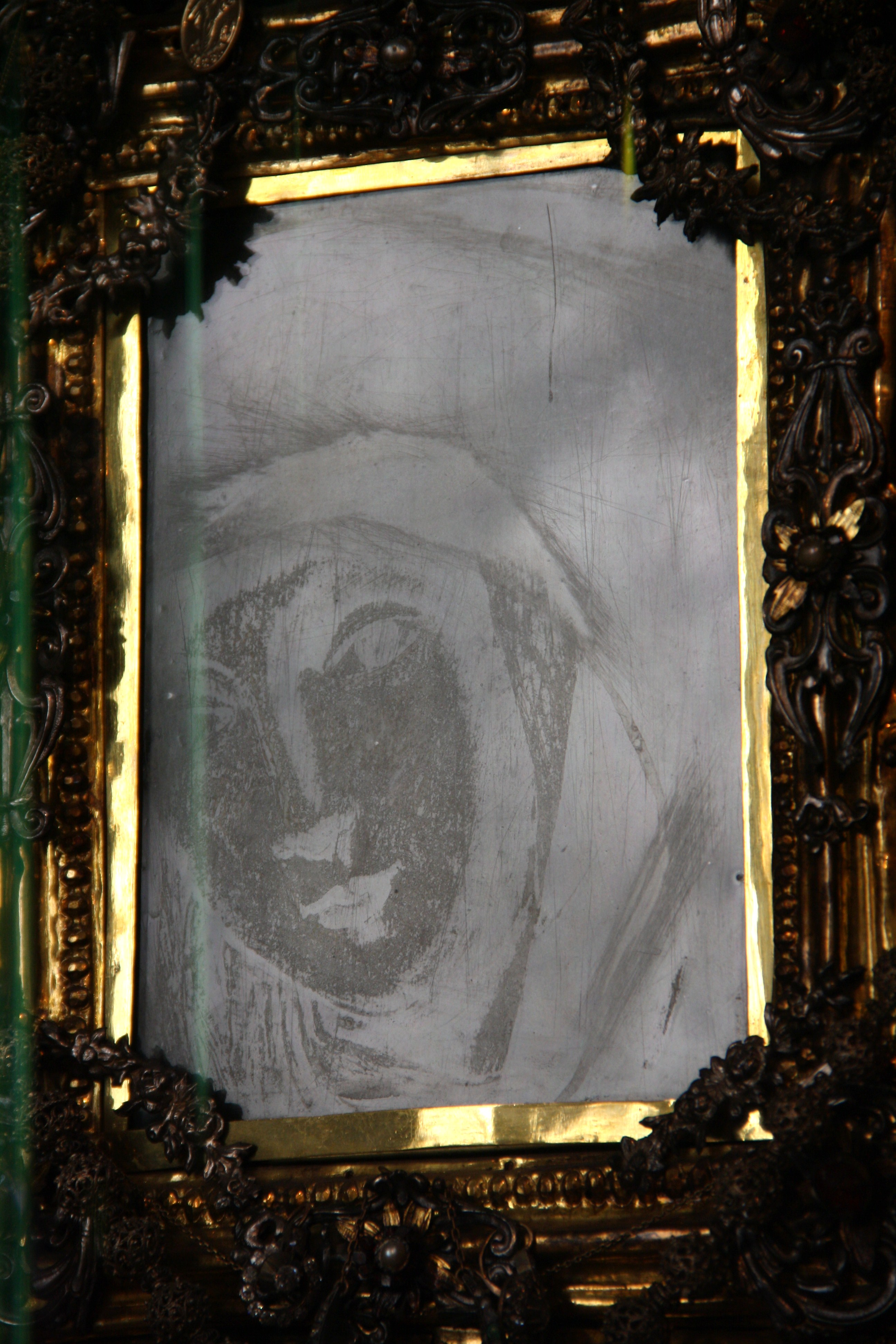 Austria, Tyrol (state), Absam. The image impressed on January, 17, 1797 on the window of Rosina Buecher’s house.